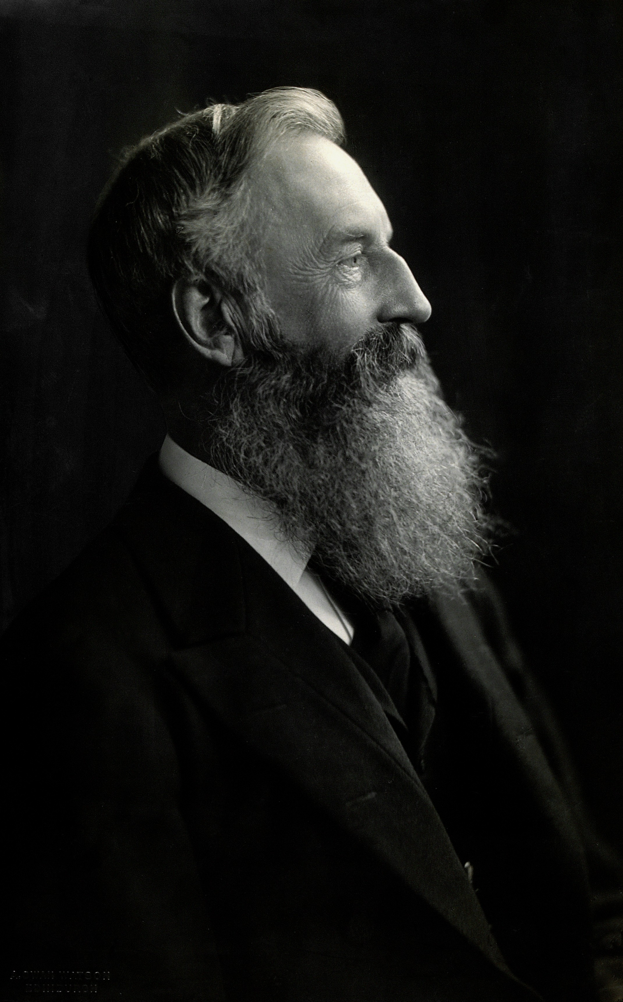 John Duncan. Photograph by A. Swan Watson. Iconographic Collections Keywords: portrait photographs